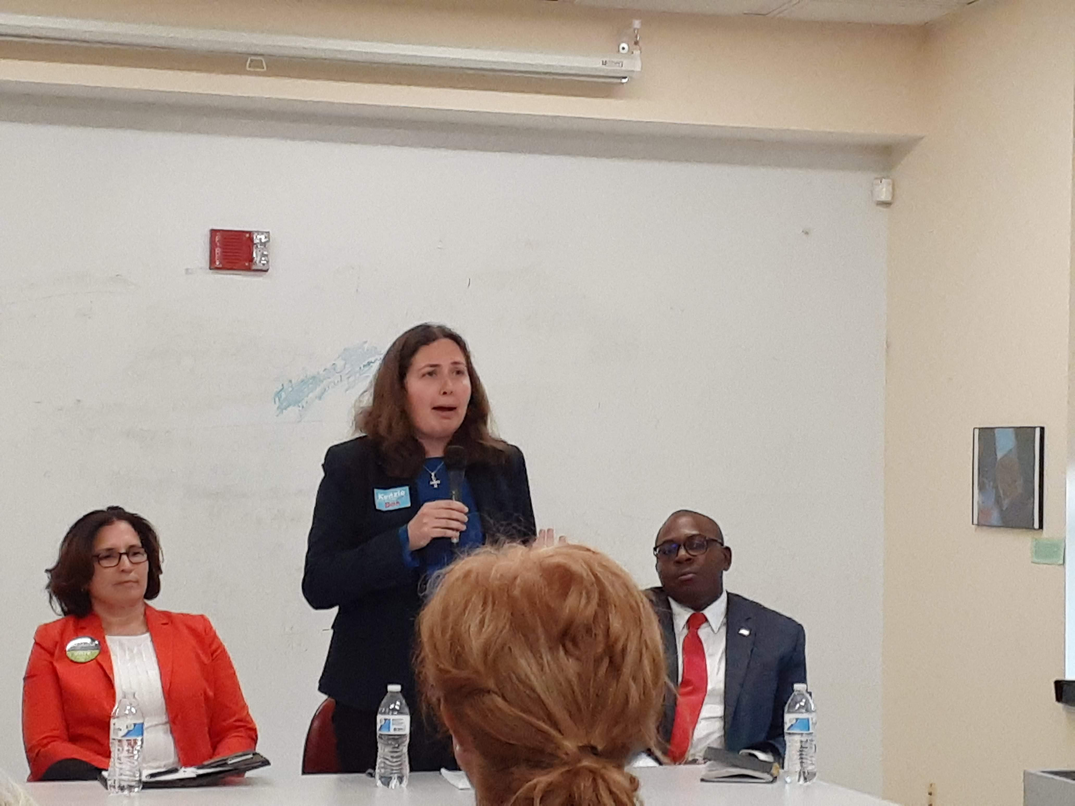 Priscilla "Kenzie" Bok